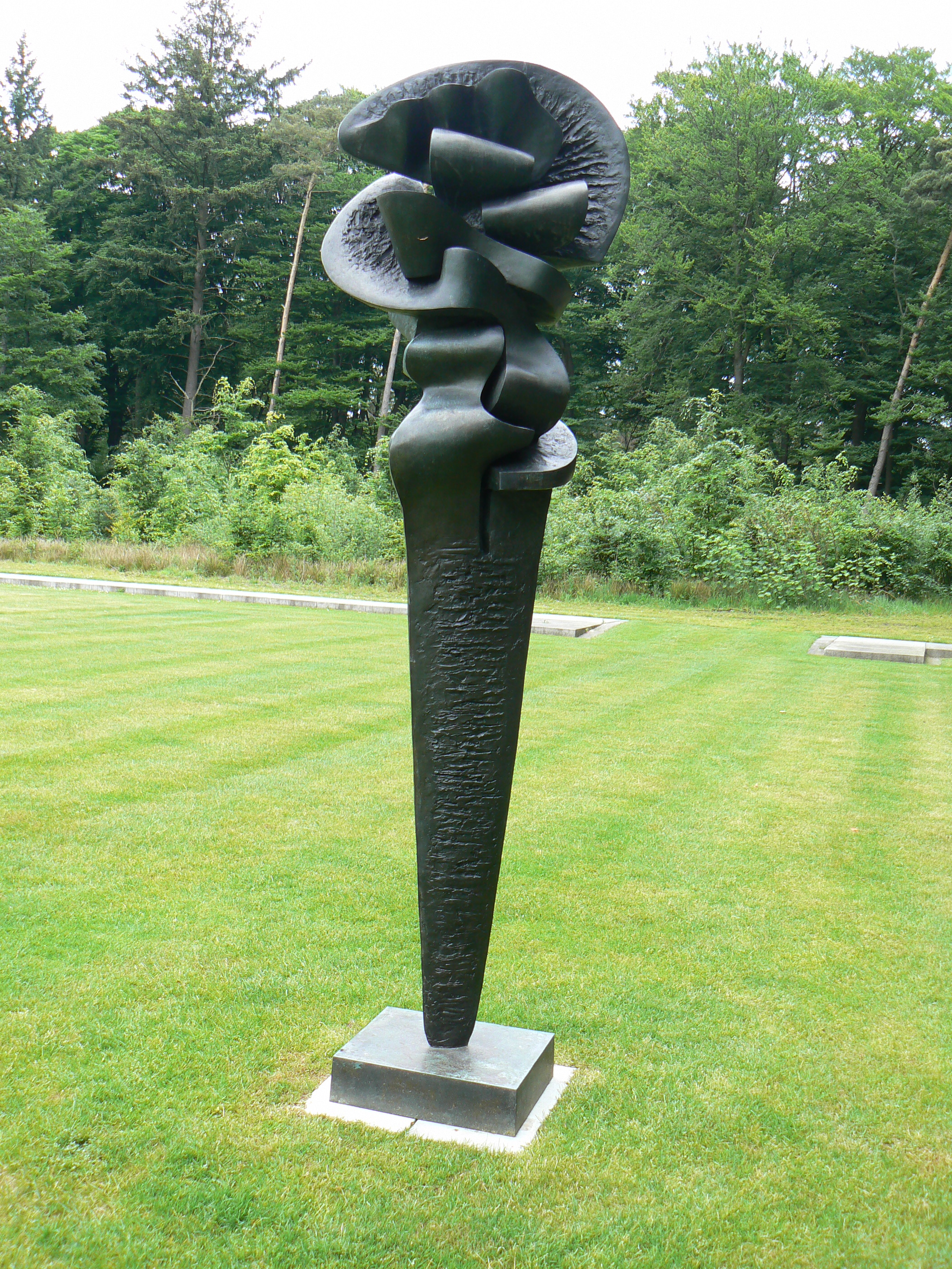 sculpture Complexes of a young lady (1960/62) by Sorel Etrog at KMM in Otterlo/The Netherlands